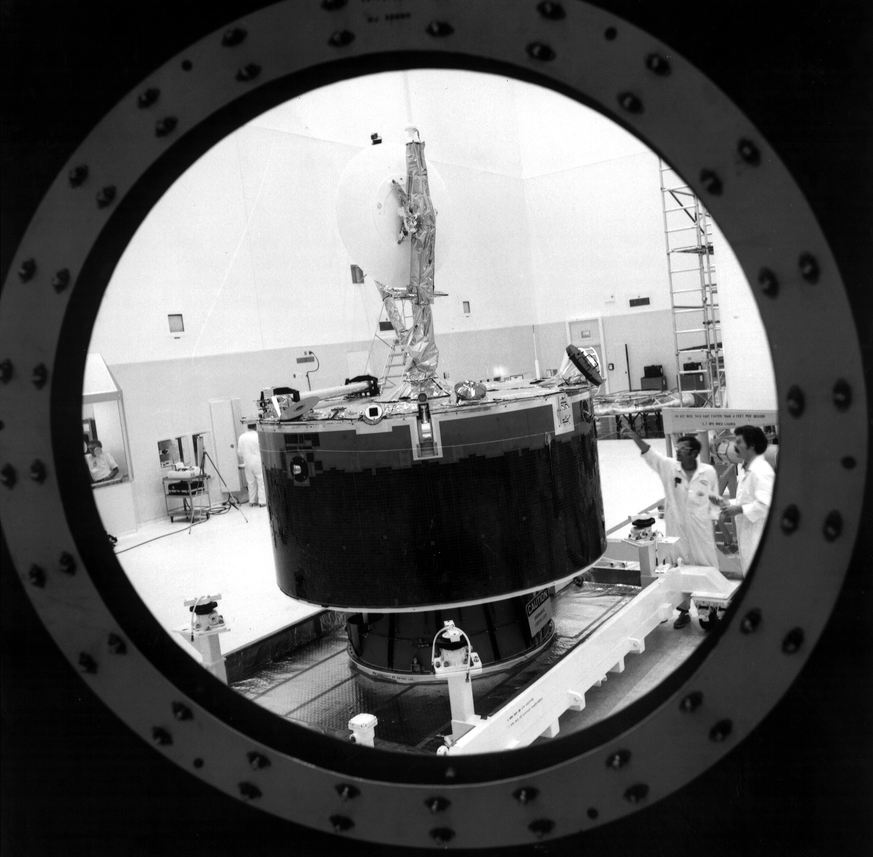 NASA's Pioneer Venus-A spacecraft undergoes inspection in Kennedy Space Center Spacecraft Assembly and Encapsulation Facility (SAEF) prior to encapsulation for move to the launch site.